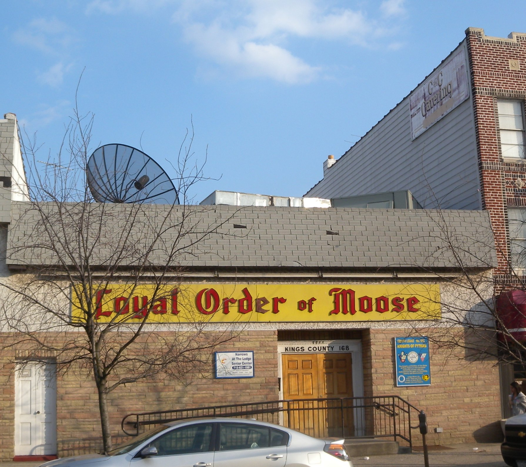 Looking southeast across 18th Avenue at Moose Lodge on a mostly sunny late afternoon.